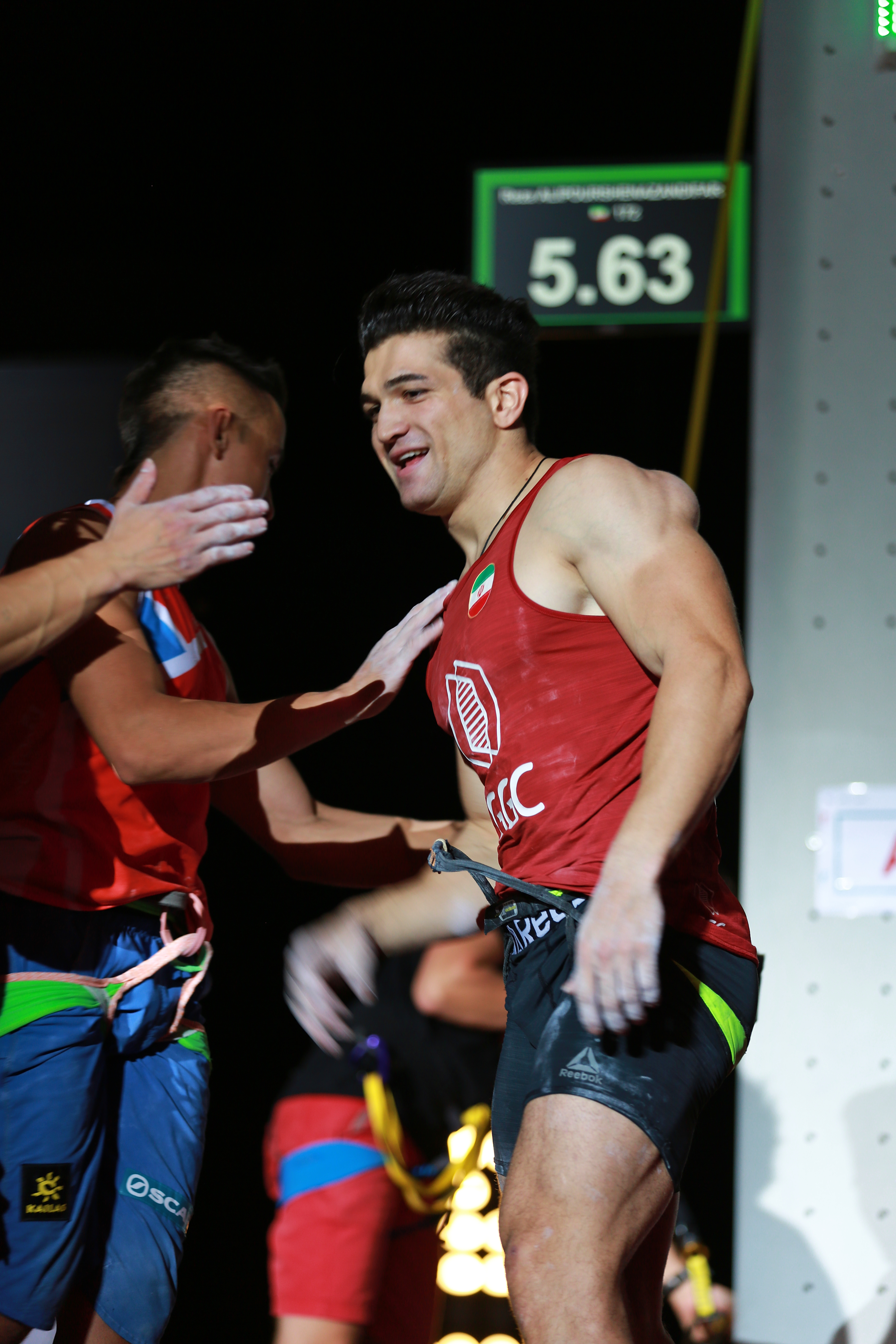 Climbing World Championships 2018 Speed Final Alipourshenazandifar